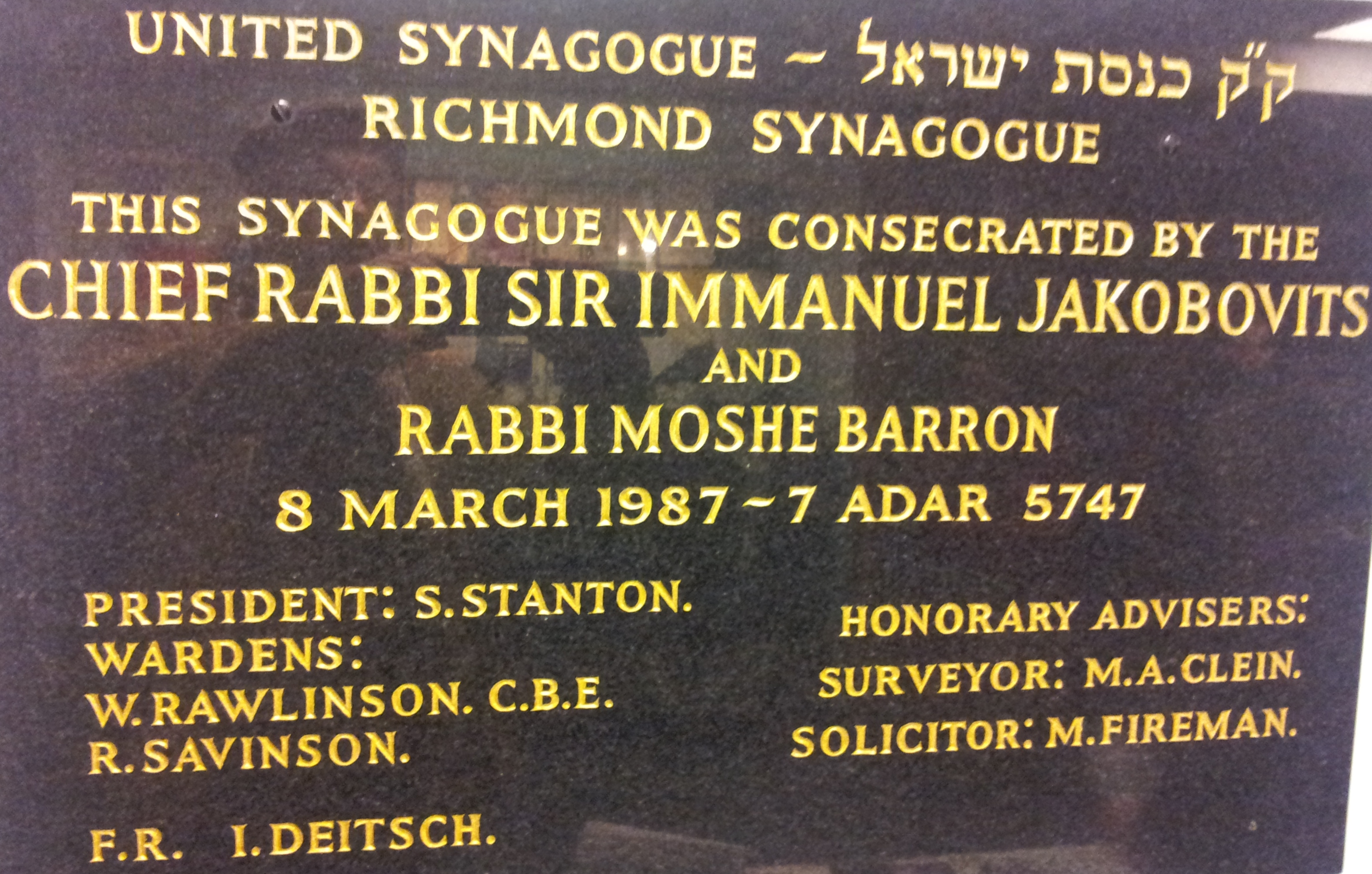 Plaque inside Richmond Synagogue, London